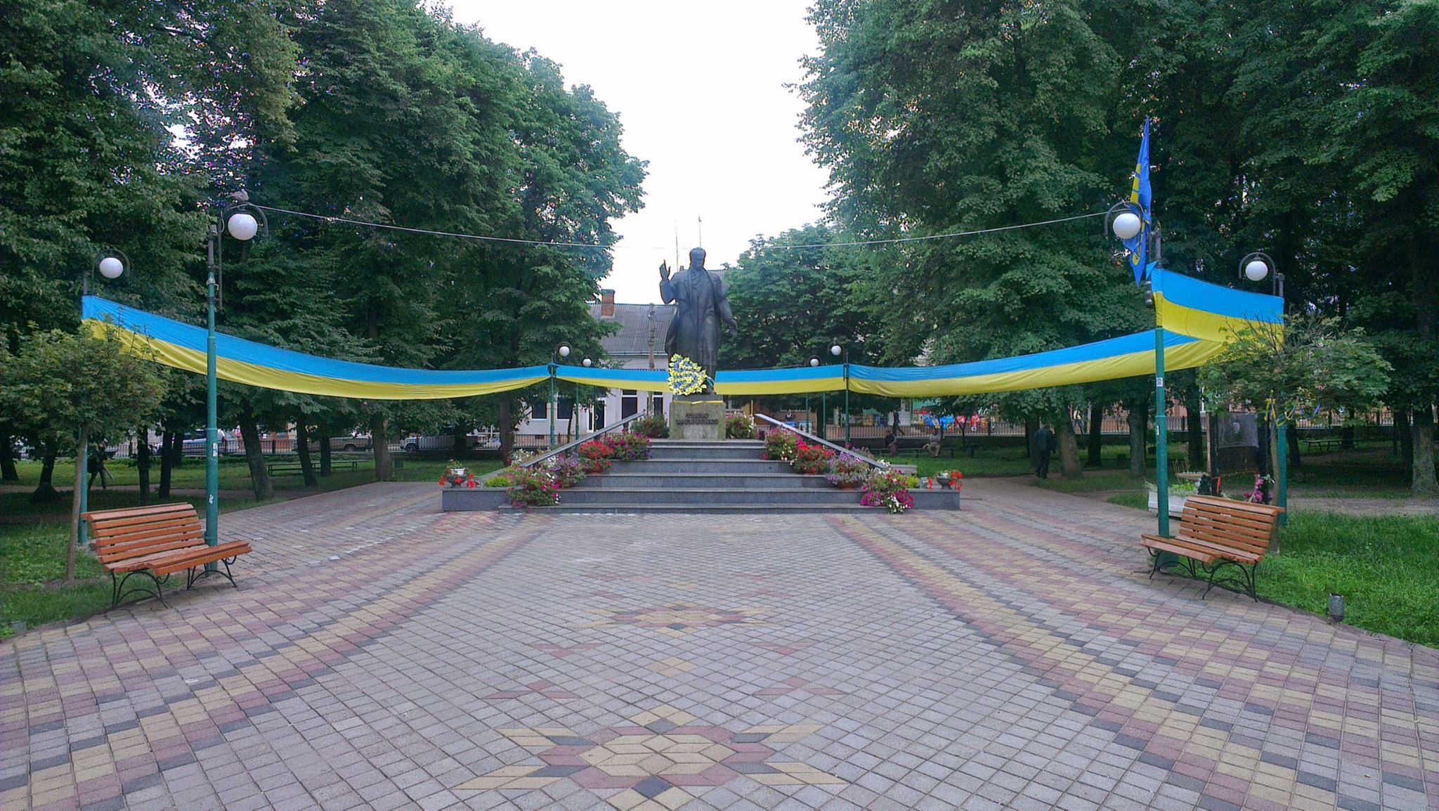 Пам'ятник Тарасові Шевченку на пл. Ринок